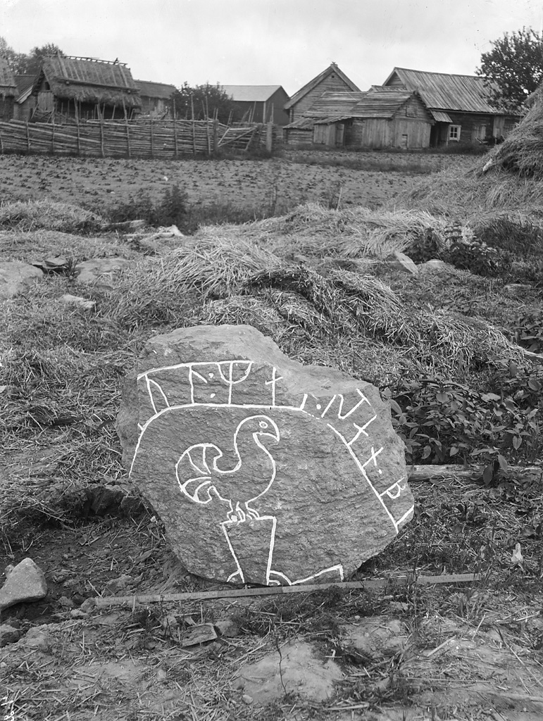 Rune stone (Sö 245) in Tungelsta, with a carved bird and an undeciphered inscription. In the background is a farmstead.